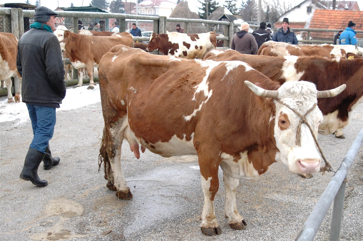 Project "Dicovering Pester" (Projekat "Otkrivanje Peštera"). Sunny winter landscape on the Pester plateau, in Serbia, with snow on mountain slopes and fields , villages and streams.